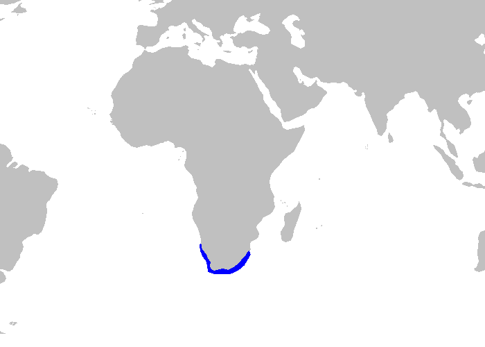 Distribution map for Mustelus palumbes